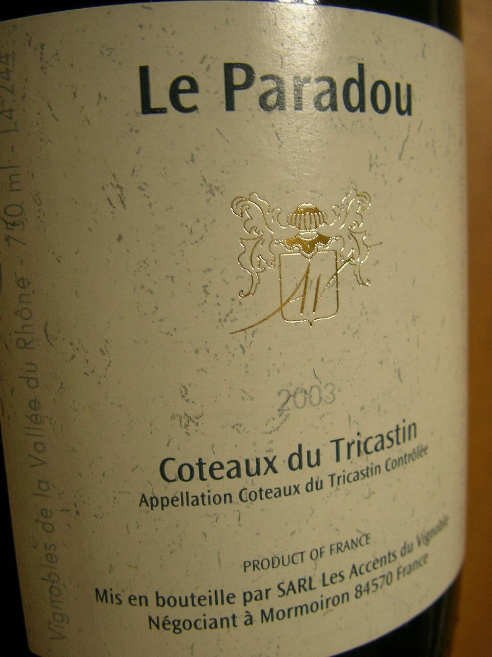 French wine from the Rhone wine region of Coteaux du Tricastin